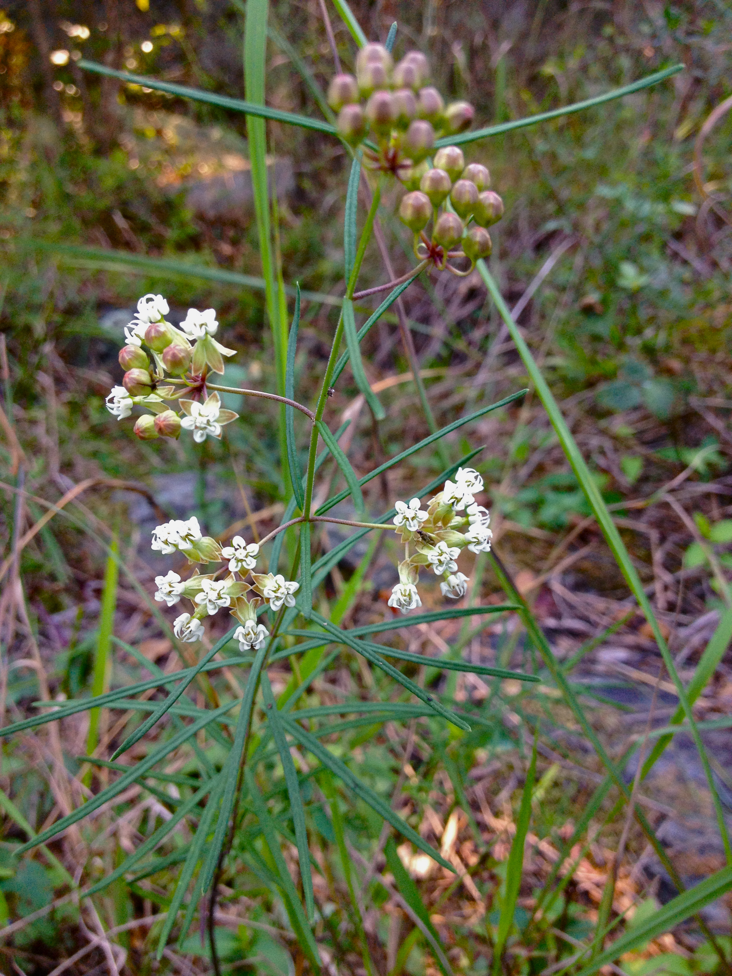 Photo of Asclepias verticillata in flower. This is a native plant growing wild in Great Falls Park, Fairfax county Virginia, USA. This species is a member of the Apocynaceae family.